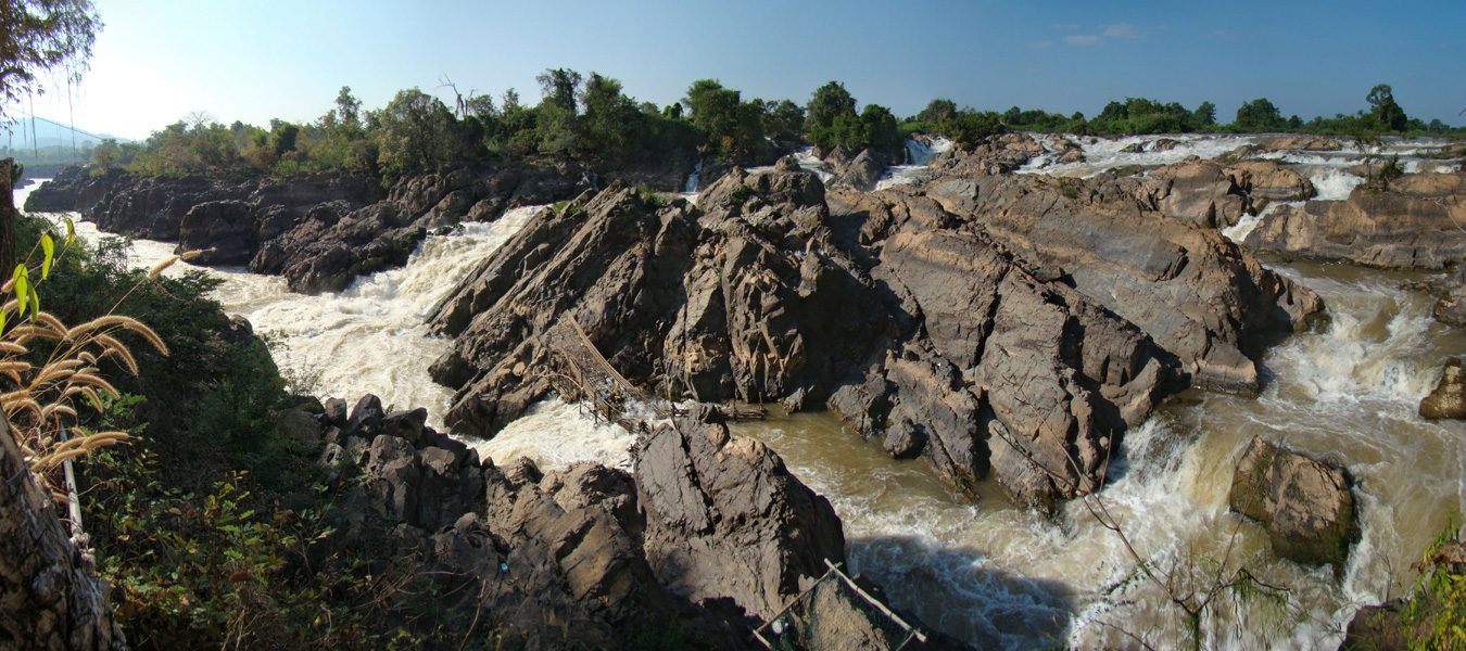 Tad Somphamit also called Li Phi Waterfalls, Si Phan Don, Champasak Province, Laos.